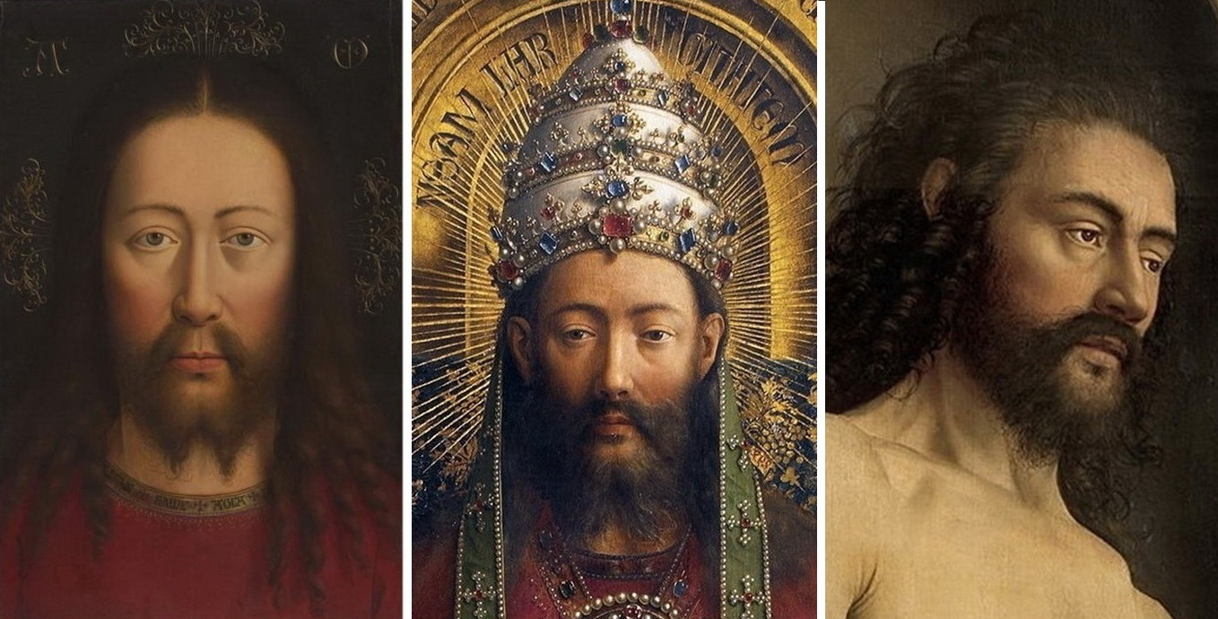 Montage of three fragments of paintings by Jan van Eyck. Left: Head of Christ or Vera Icon ("True Image") in the collection of the Alte Pinakotek in Munich. Centre and right: details from two panels of the Ghent Altarpiece: Jesus or God the Father (centre) and Adam (right). Montage by Kleon3. All images uploaded to Wikimedia Commons with a free license: File:Jan van Eyck Vera Icon.jpg File:Lamgods open.jpg (2x)